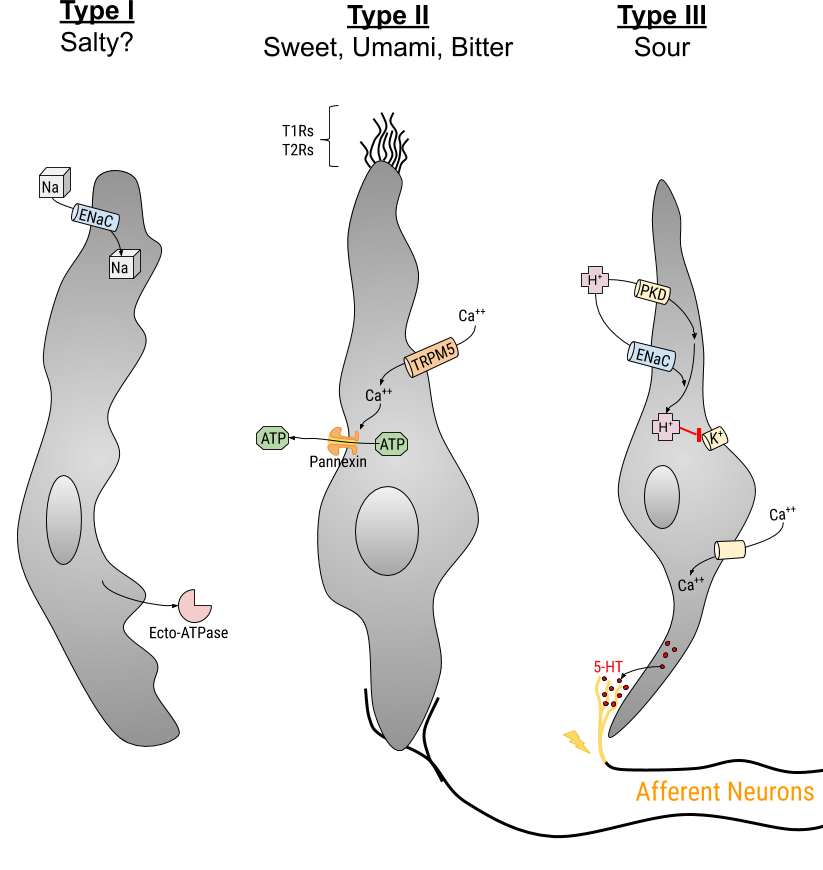 Taste cells and receptors